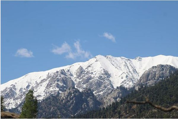 View of Lowari pass from Qashqaray which is the border between Upper Dir District and Chitral District.